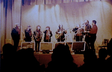 Blue Murder live at Montgomery Hall, Wath-upon-Dearne, Sunday 1st November 1987. Original photography by Kevin Boyd.